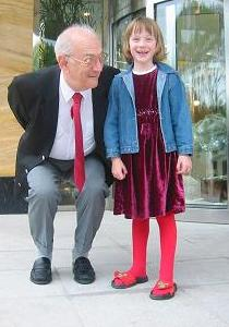 Viktor Kortschnoi and Sarah Hund (daughter of Barbara Hund), Chess Olympiad 2004 at Calvia